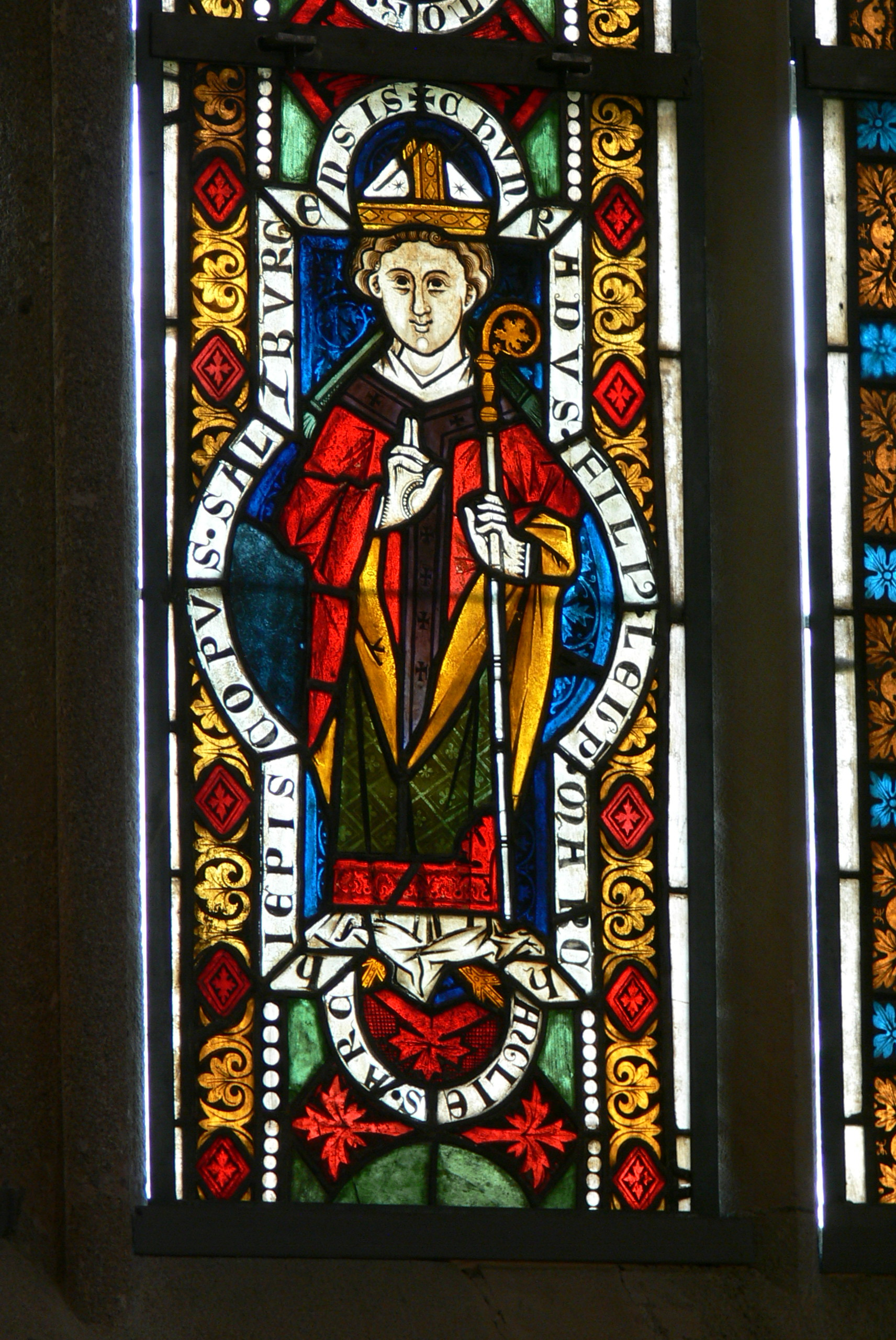 Heiligenkreuz abbey ( Lower Austria ). Lavabo: Babenberg windows ( 1290s ), showing members of the house of Babenberg: Konrad, bishop of Passau and archbishop of Salzburg.